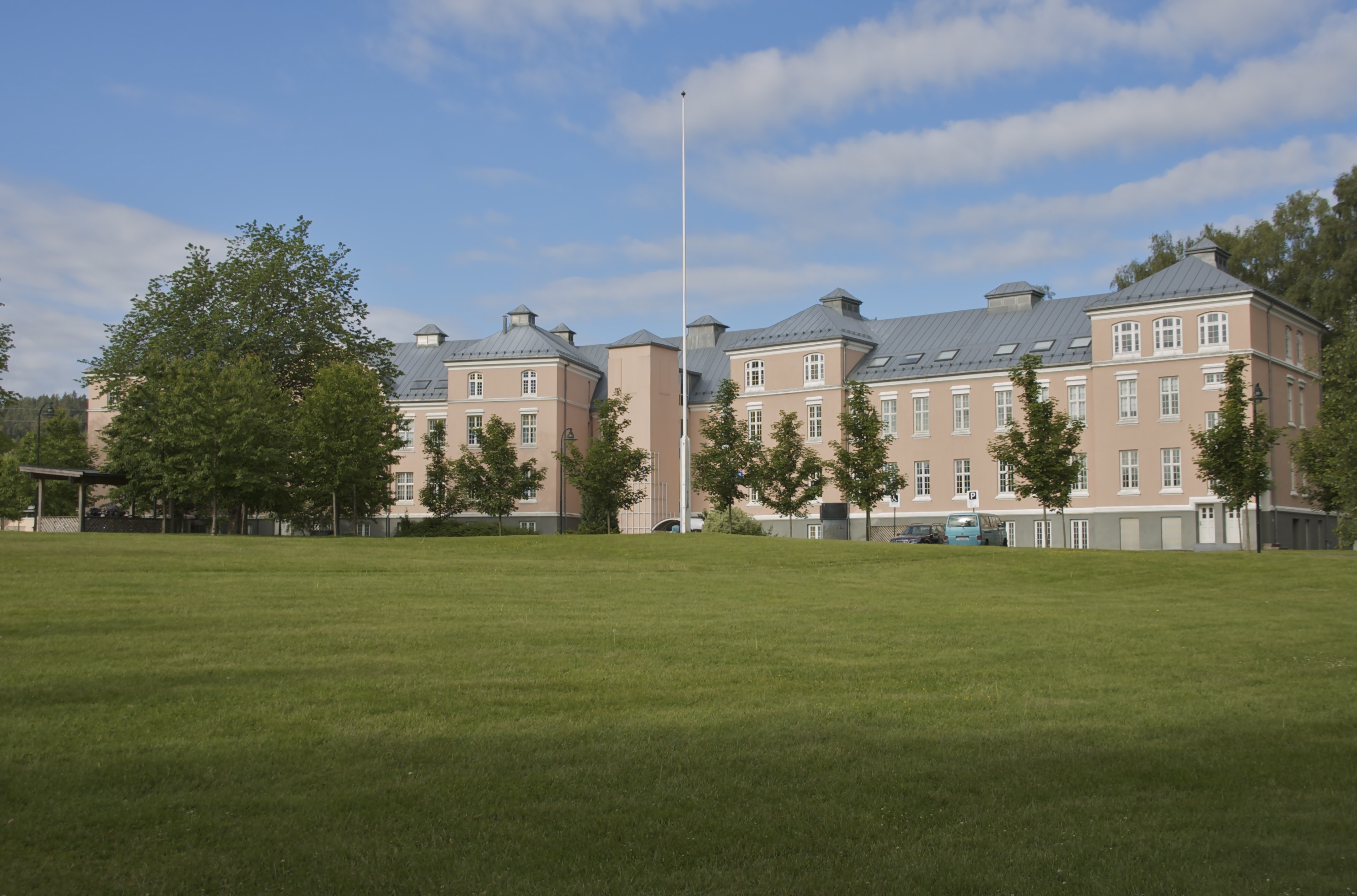 The old main building for the hospital in Skien, Norway. Now housing psyciatric sections etc.